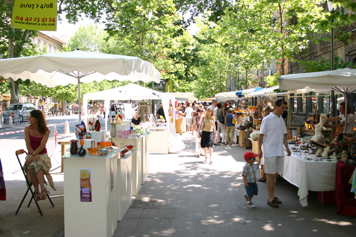 The street market in Aix-en-Provence (France).